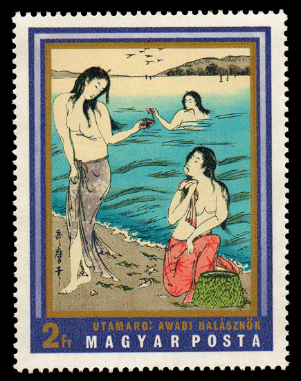 Japanese prints from the Museum of East Asian Art, Budapest Denomination: 2 Forint